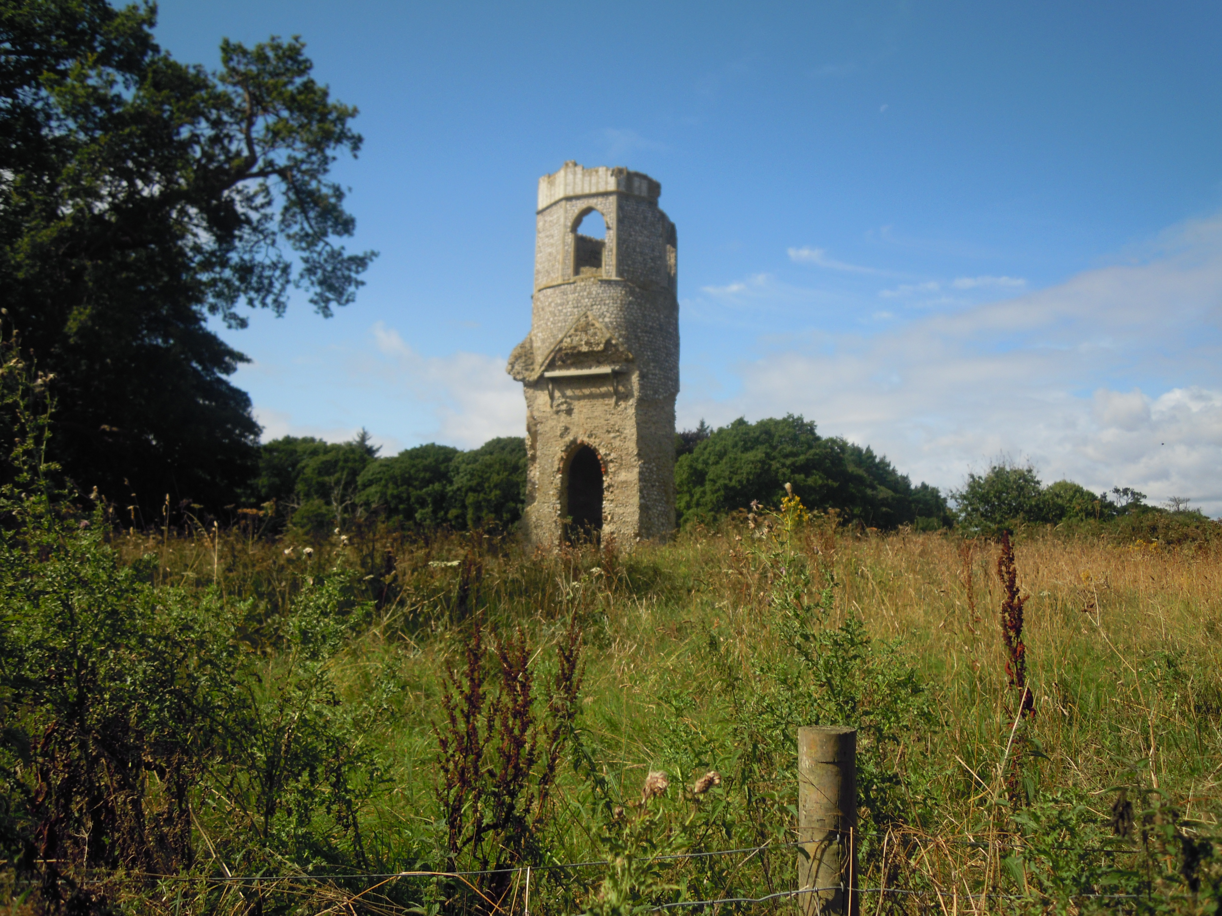 The ruin of Saint Margaret’s Church with just the tower remaining, Wolterton Hall estate, Norfolk.